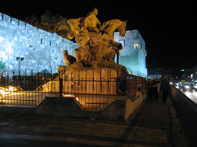 Damascus Citadel